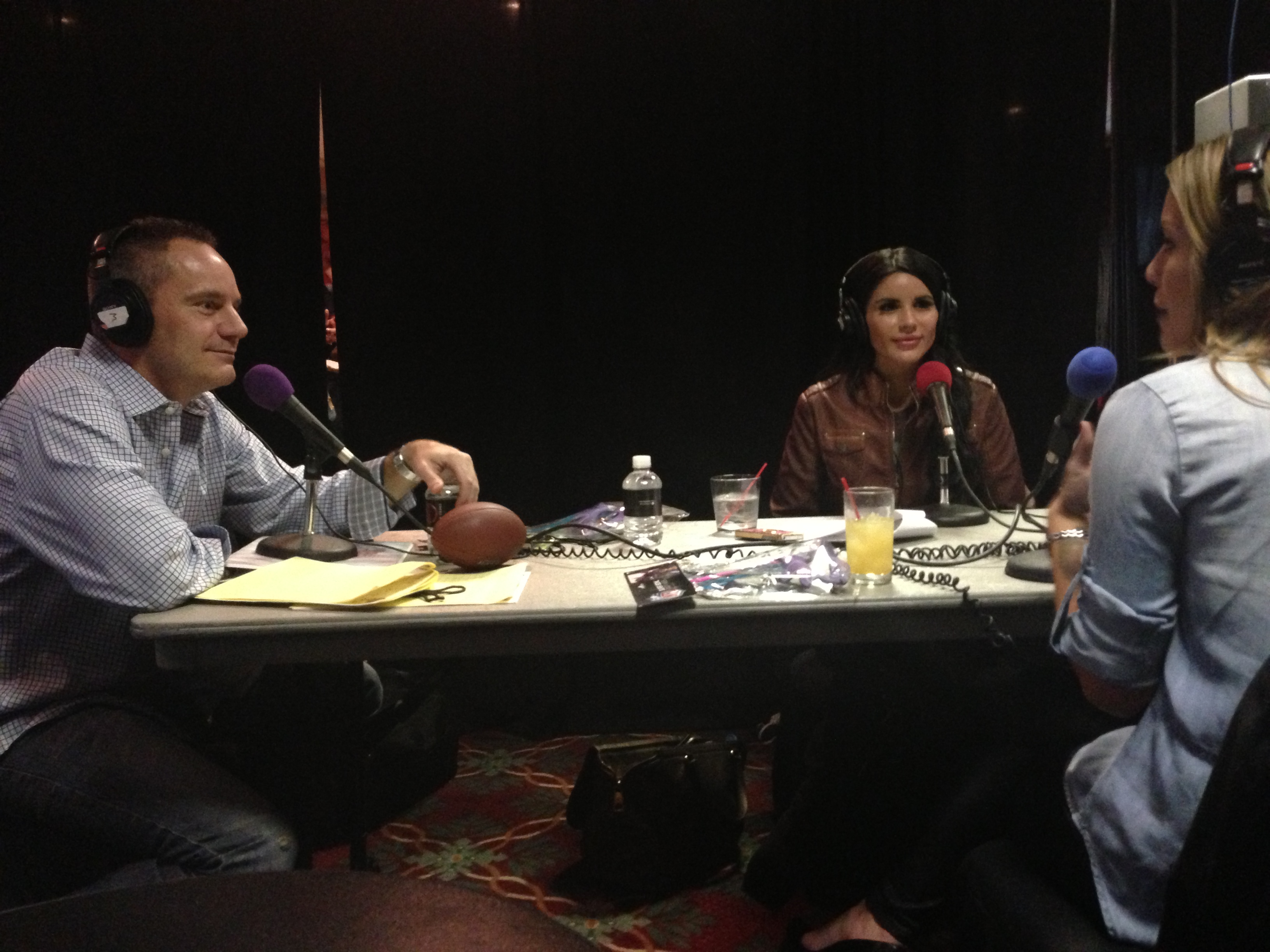 Steve Cyr hosting his Inside Sin City Radio show with co-star Parre interviewing Randy Couture